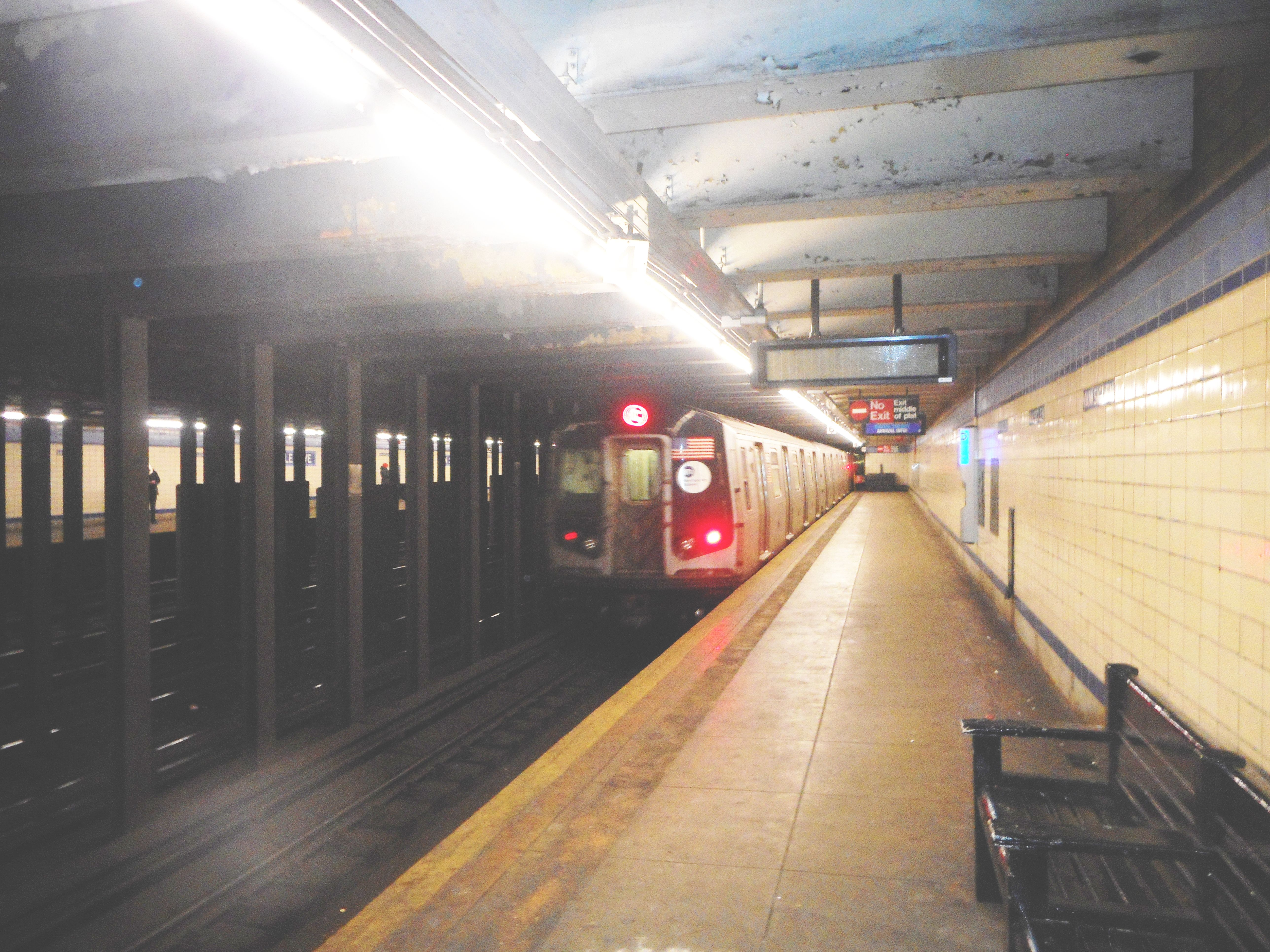 An R160 train bound for Euclid Avenue departs the Van Siclen Avenue Subway station on the IND Fulton Street Line in the East New York section of Brooklyn, New York City. Above the tracks is a sign indicating where hypothetical four-car trains are required to stop.